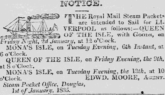 Advert for the passage of goods on the Queen of the Isle